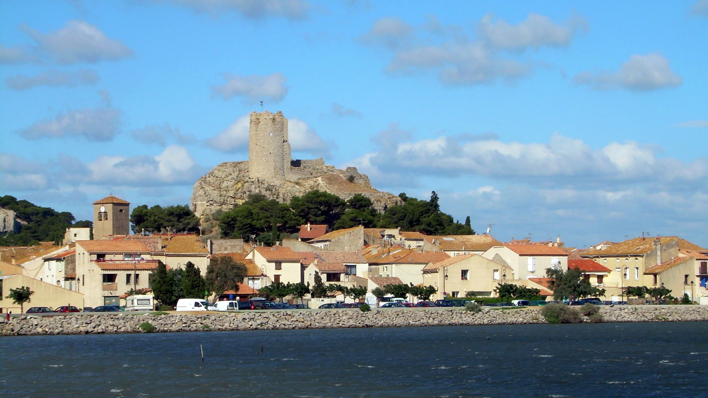 Historical city centre of Gruissan with the ruin of “tour Barberousse”.